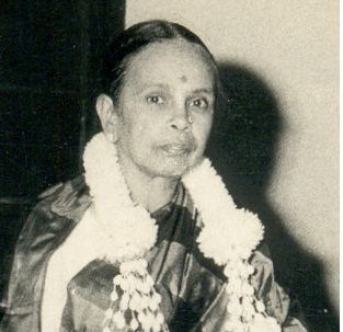 Smt Vani